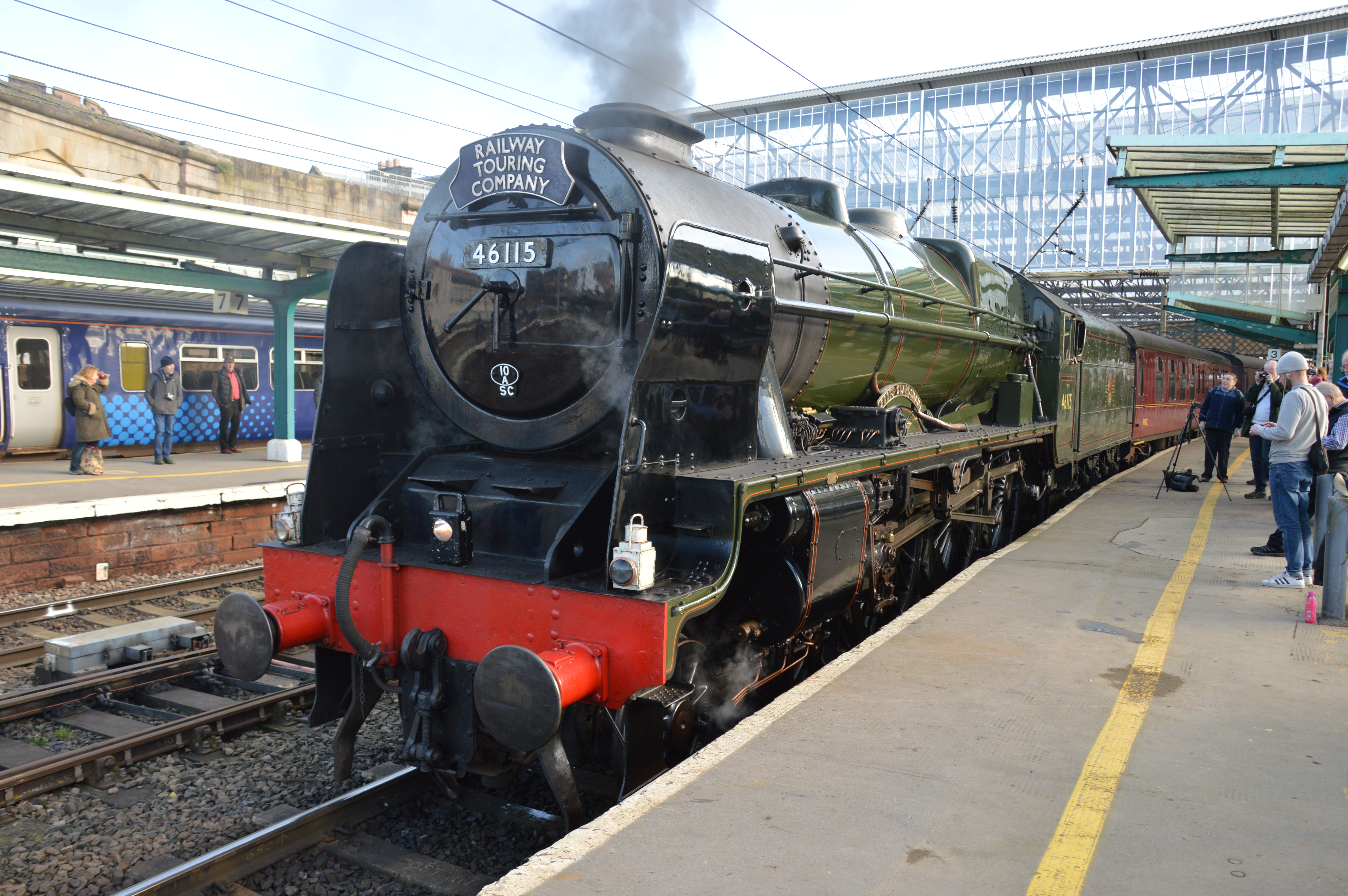 LMS Rebuilt Royal Scot 4-6-0 no 46115 Scots Guardsman is seen at the northern end of Carlisle Citadel after arriving with the steam portion of Feb 8th's "Winter Cumbrian Mtn Express". The tour originated from London Euston and 46115 took over from 86259 Les Ross at Carnforth heading north over Shap. The paintwork on 46115 is almost fresh as it only returned to traffic from an overhaul in the summer of 2019.